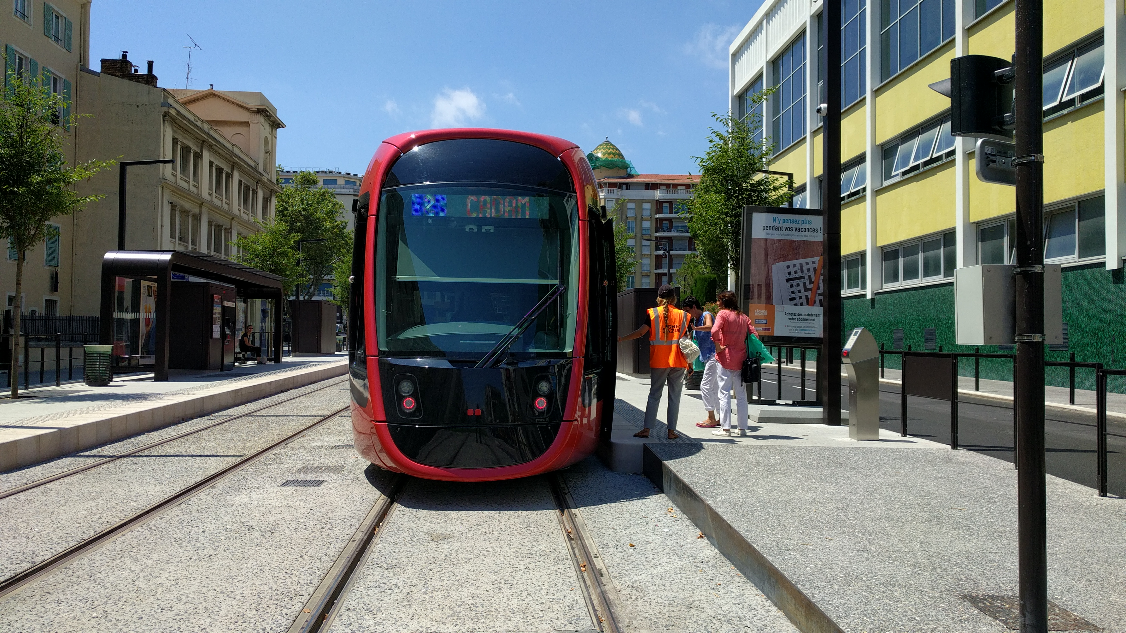 Tram at Magnan